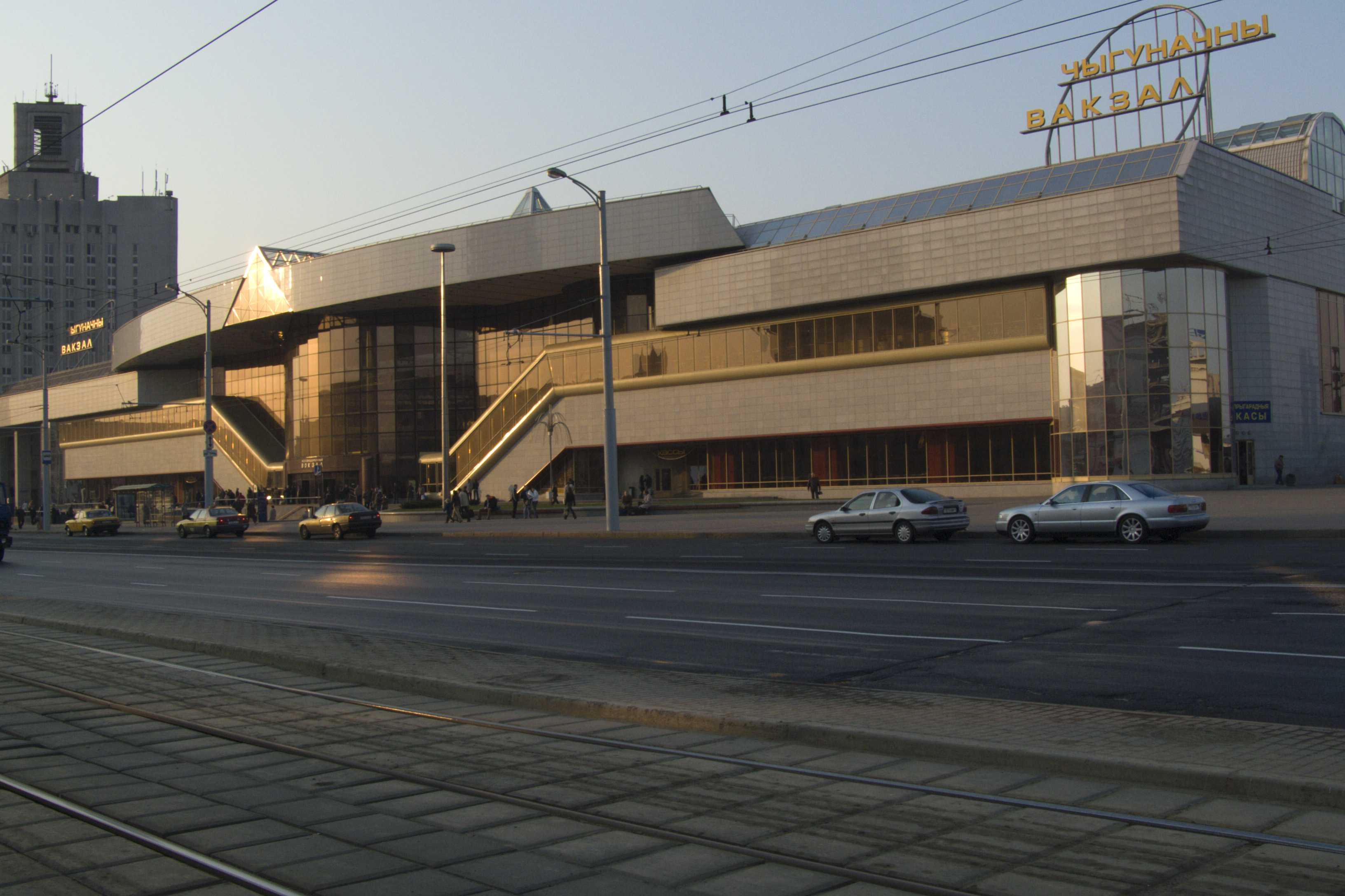 Minsk railroad station